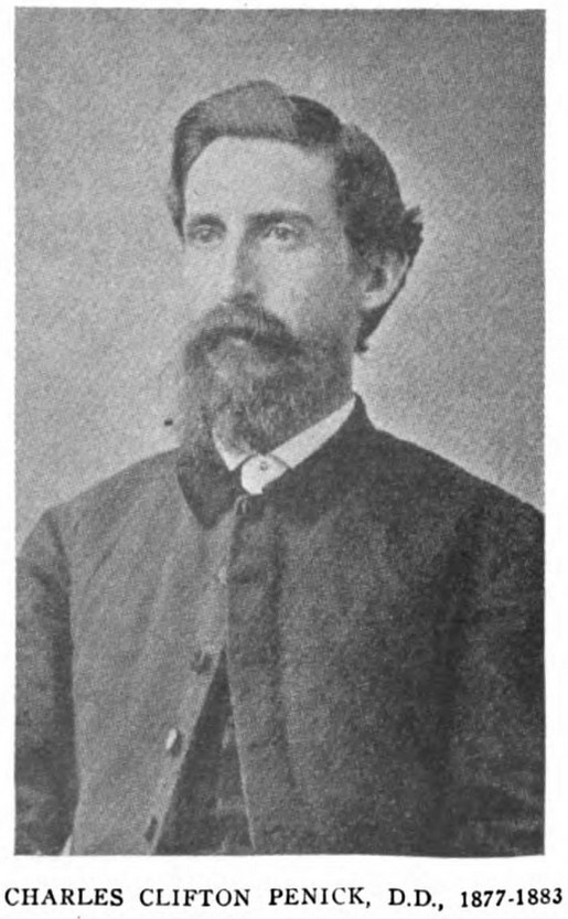 “Bishop Charles Clifton Penick”. Illustration from Forth Journal